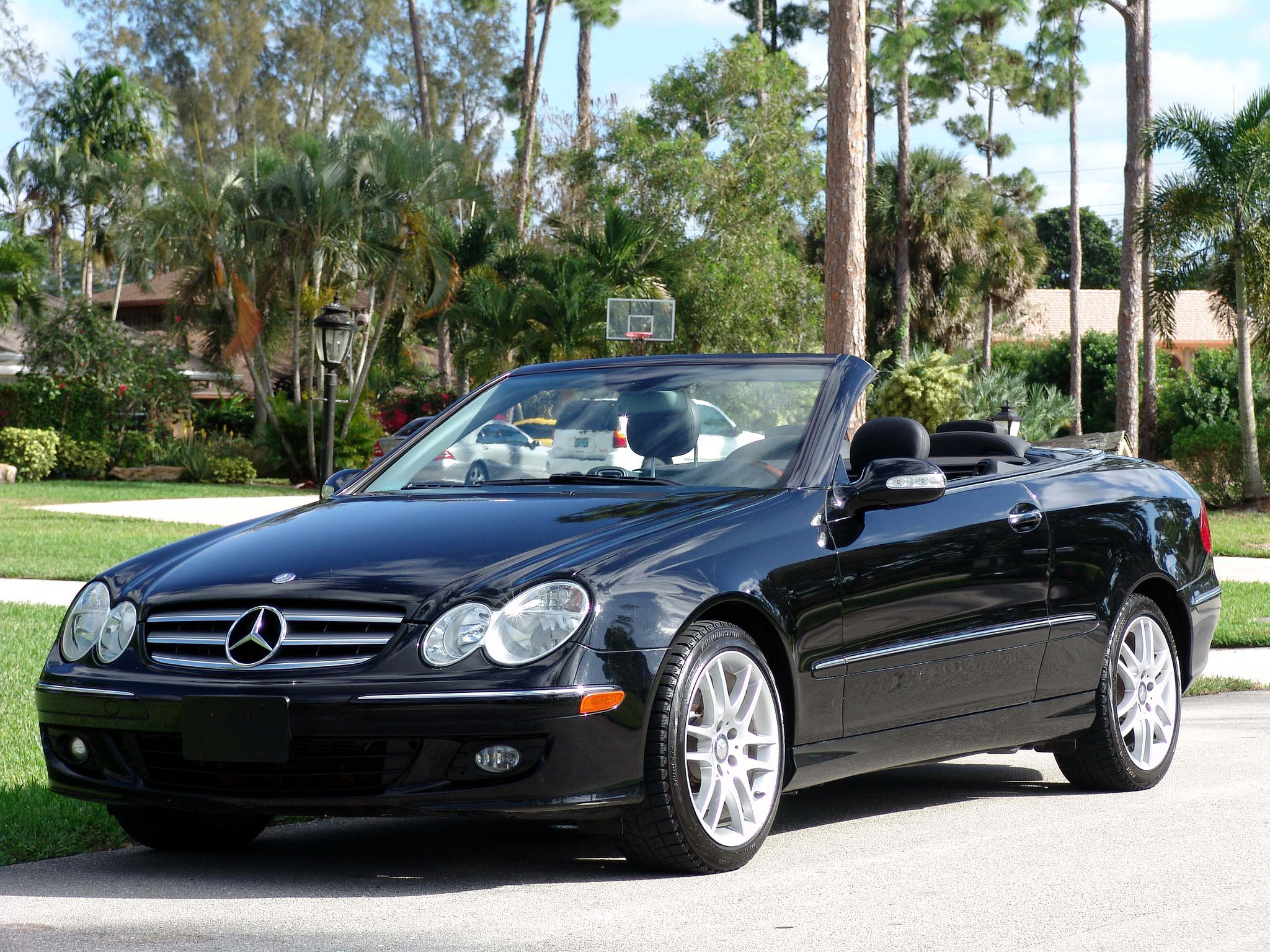 Mercedes-Benz W209 Cabriolet (facelift). USA version.